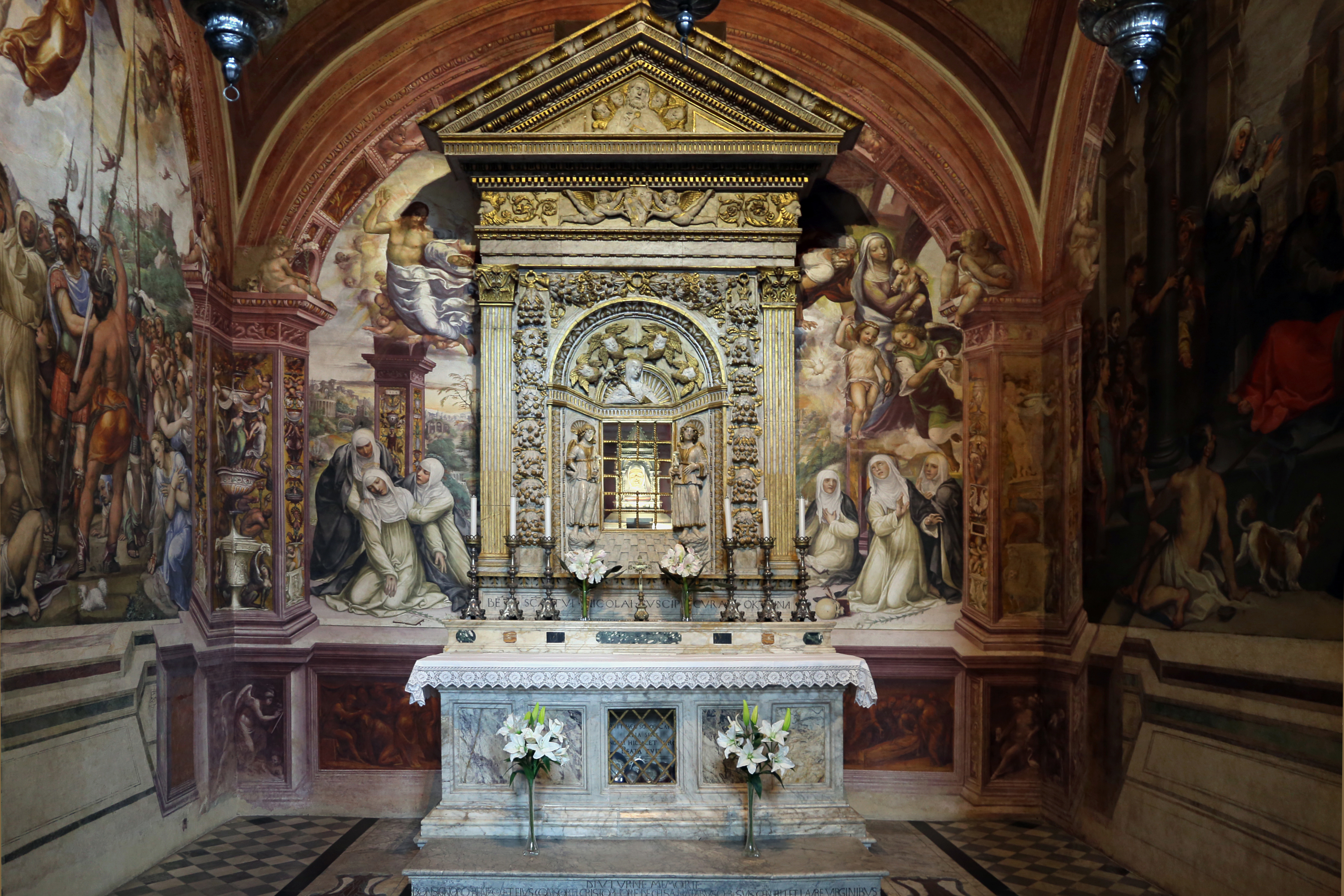 Chapel of Saint Catherine of Siena (Basilica of San Domenico)